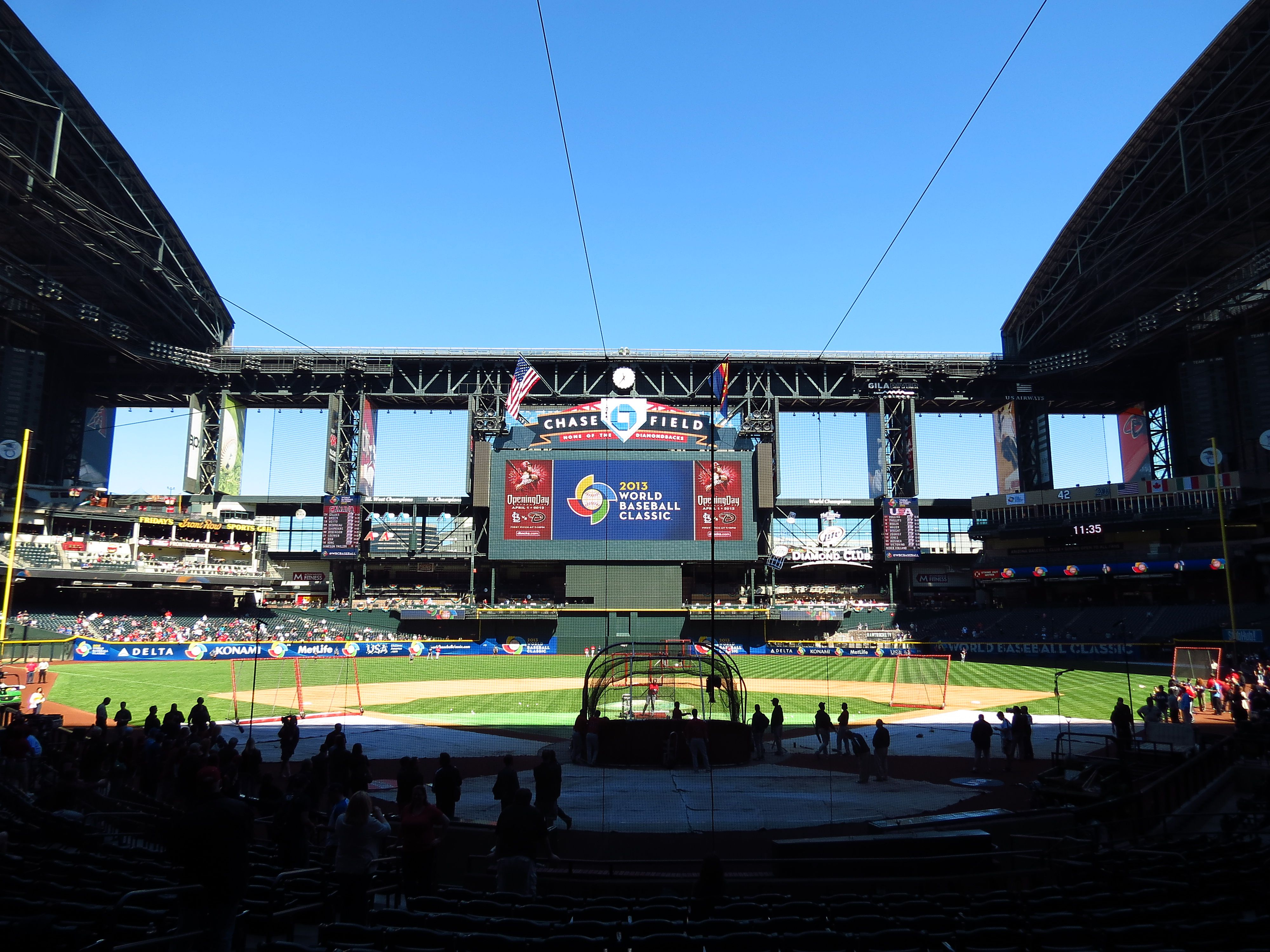 2013 World Baseball Classic United States vs Canada